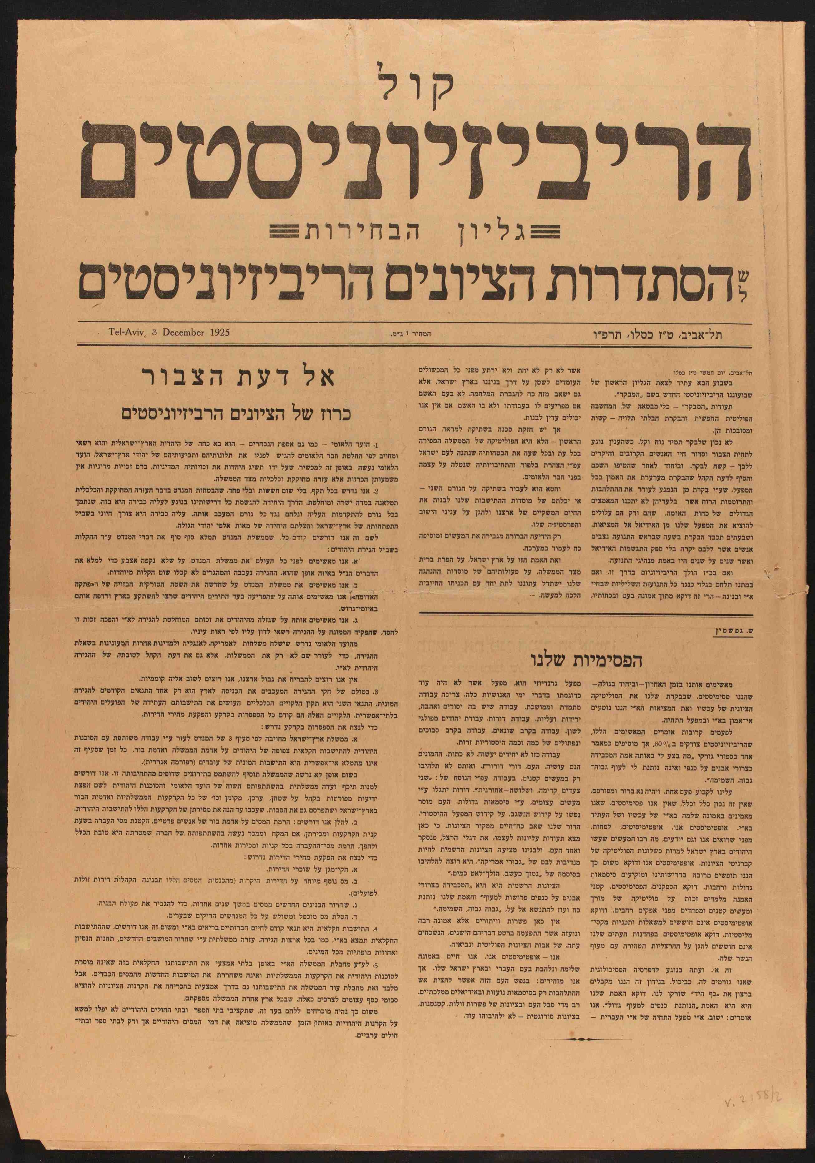 Revisionists ideology